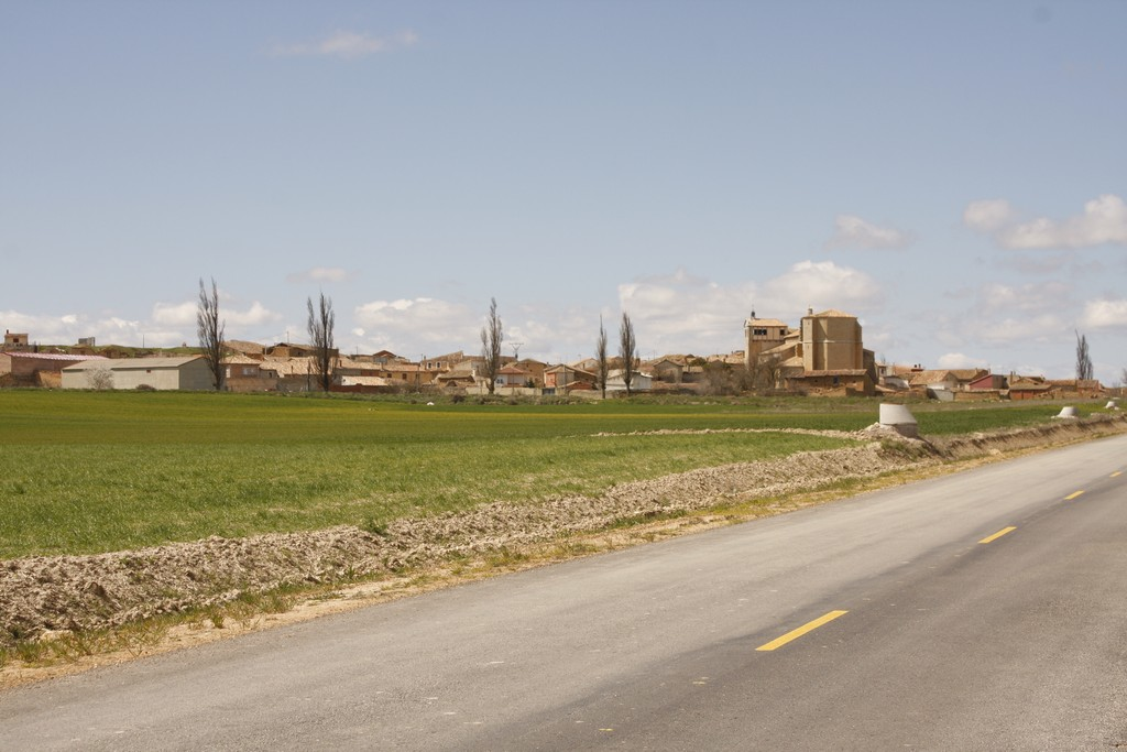 View of Castrillo Matajudíos